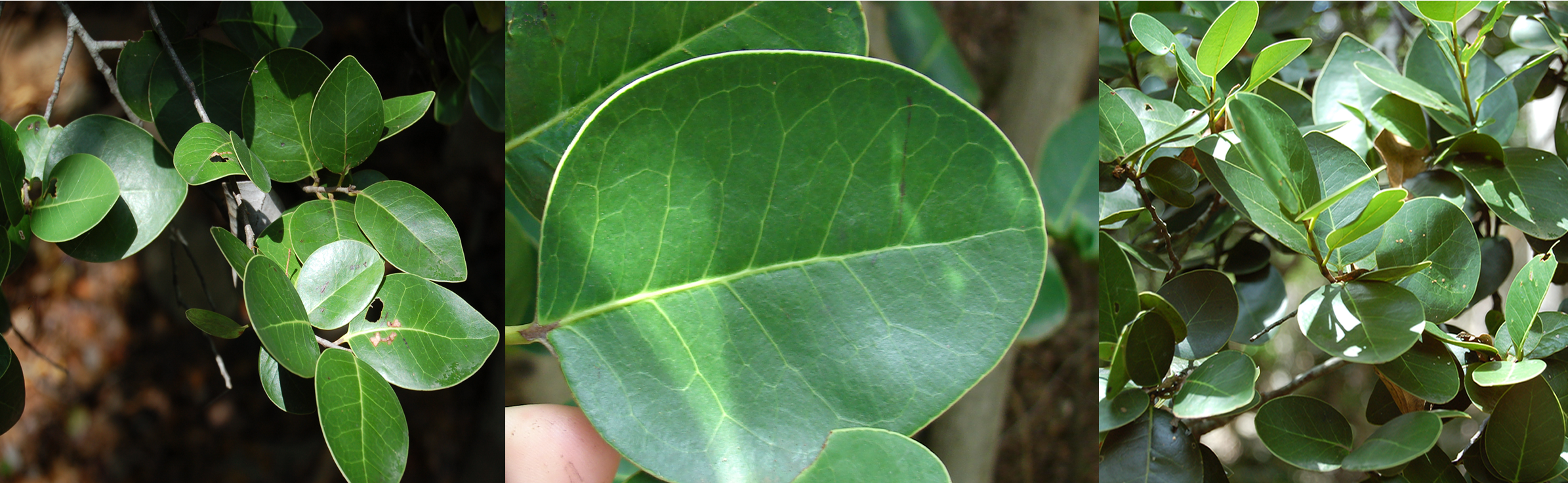 Ottoschulzia rhodoxylon, Palo de Rosa Location: Puerto Rico Photo by Carlos Pacheco and others USFWS